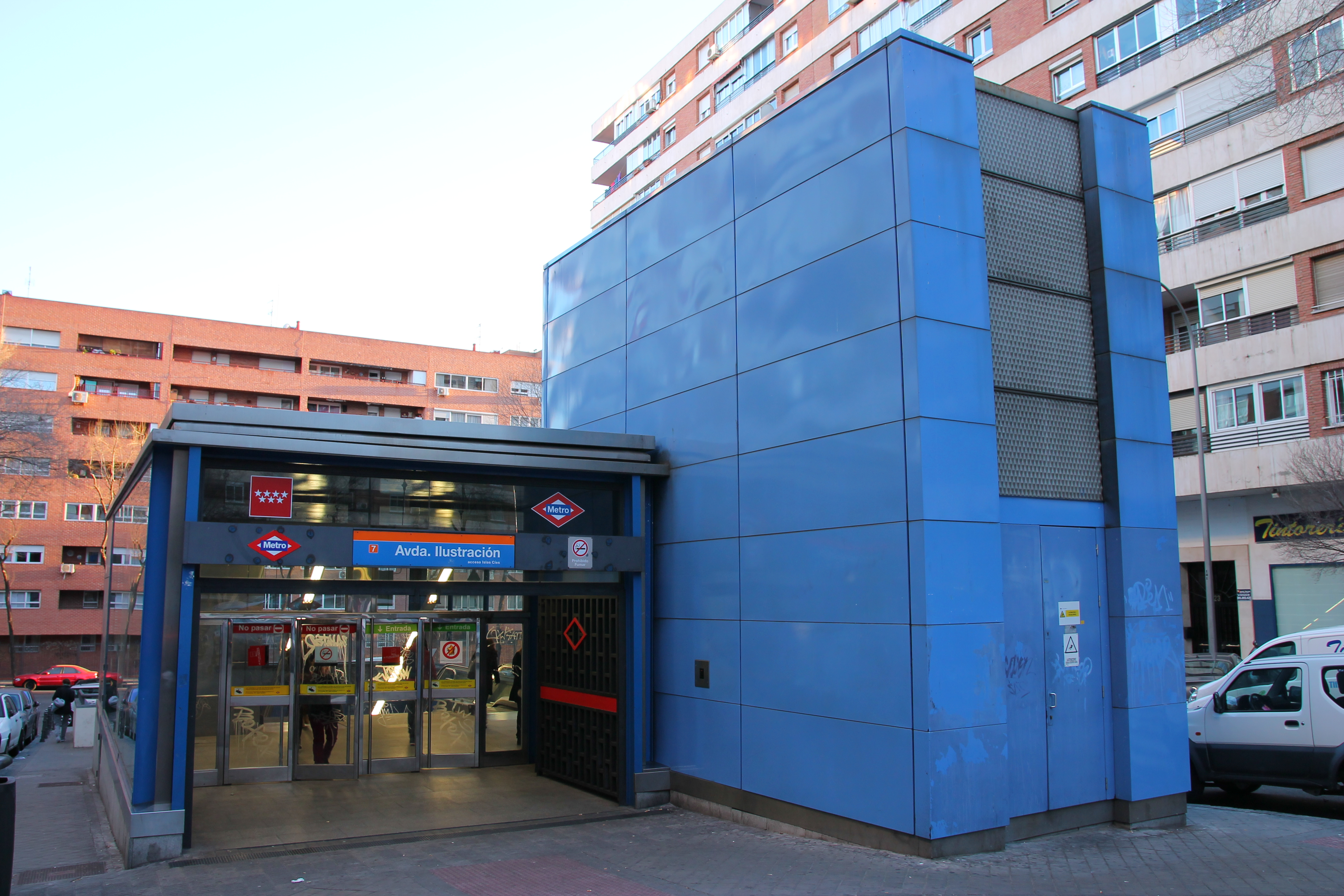 Estación de Avenida de la Ilustración